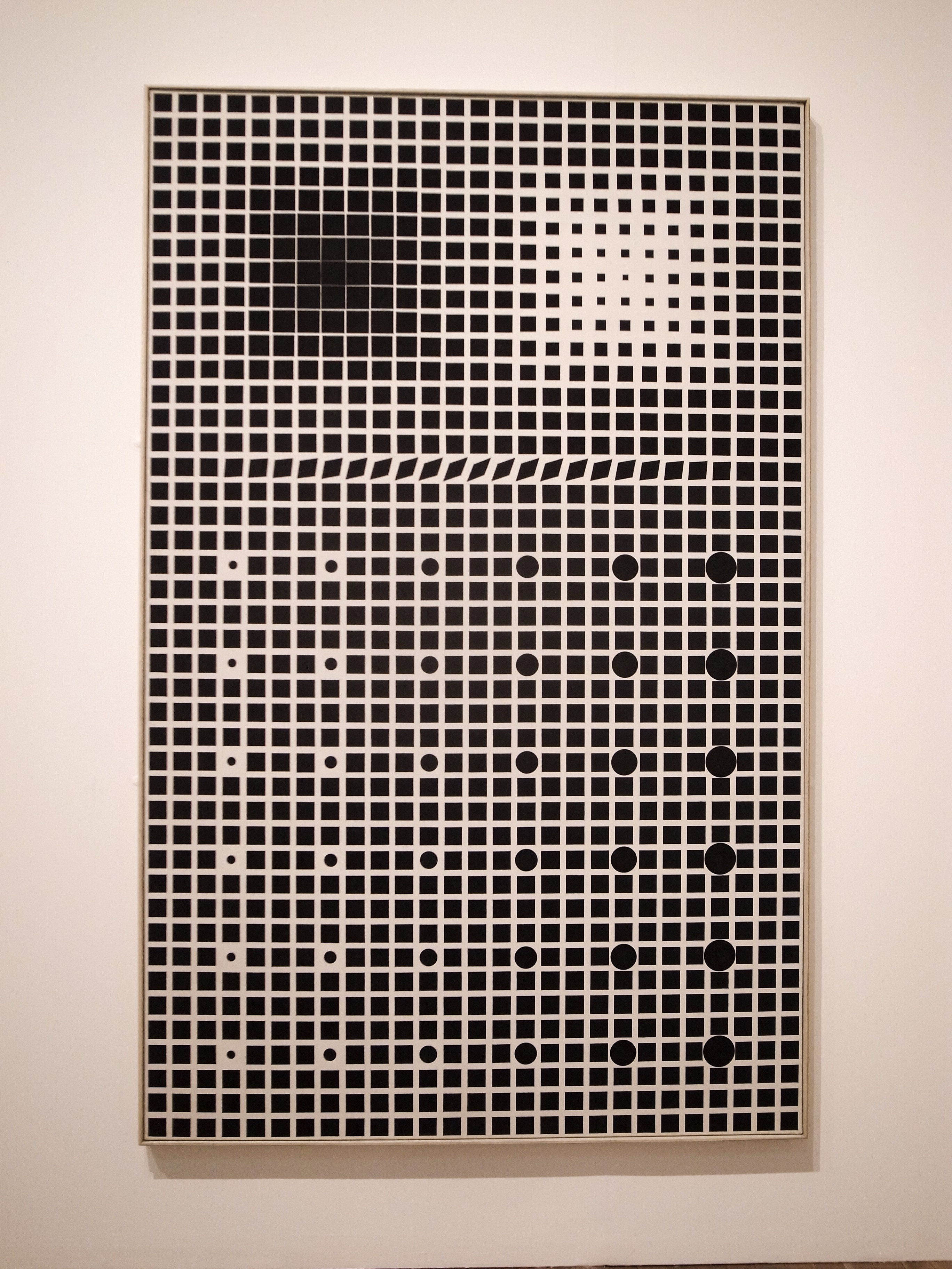 Supernovae (1959-61) by Victor Vasarely In Tate Modern, London